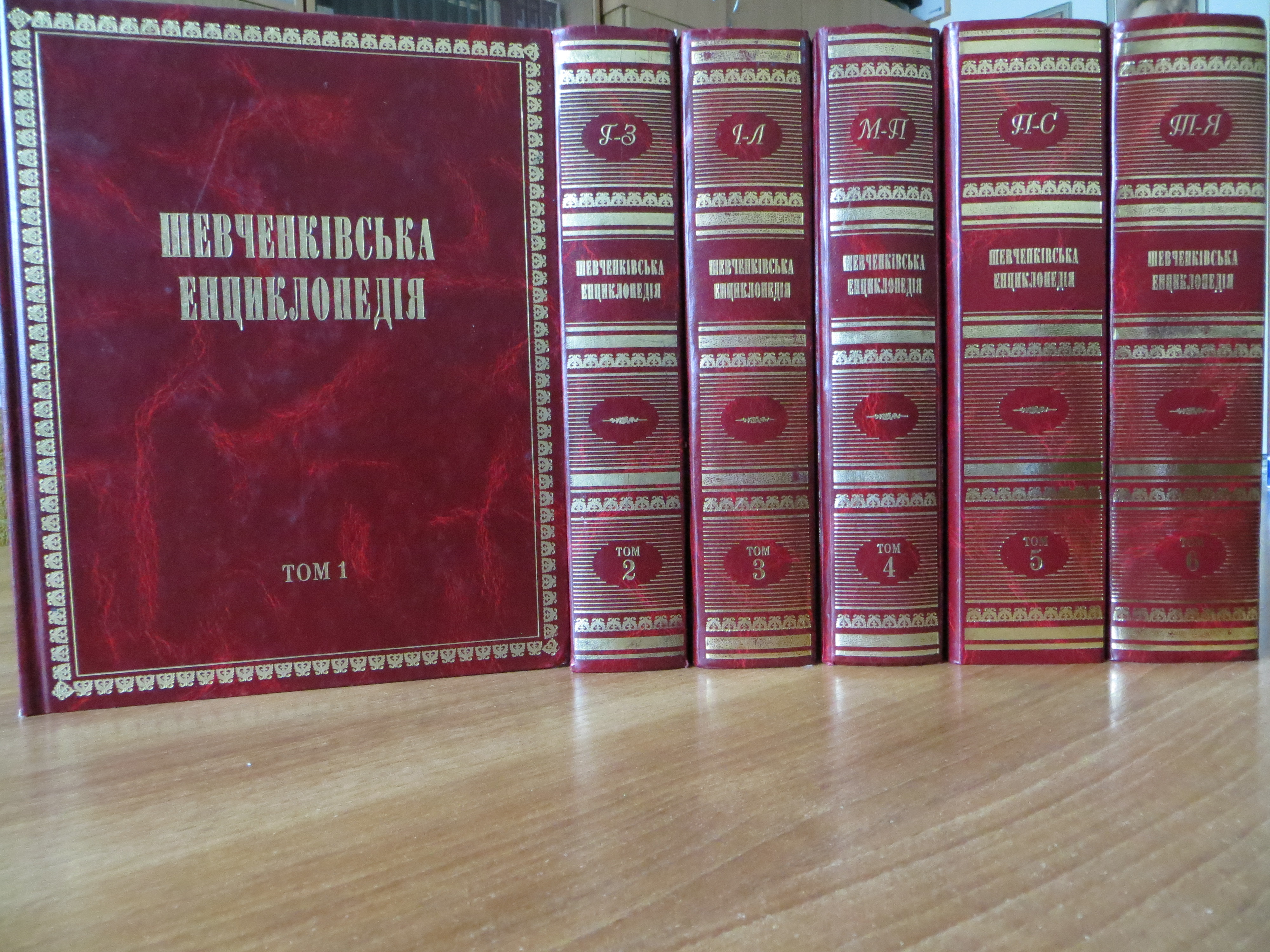 shentsyklopediia